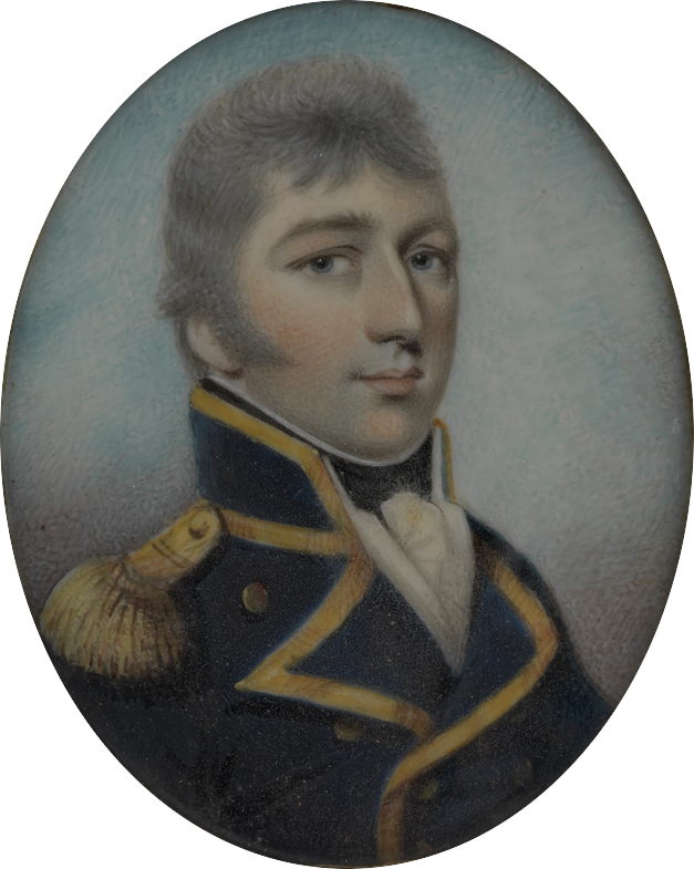 Portrait of Sir Jahleel Brenton, 1770 - 1844, Vice-Admiral of the White. Oval miniature in watercolour.